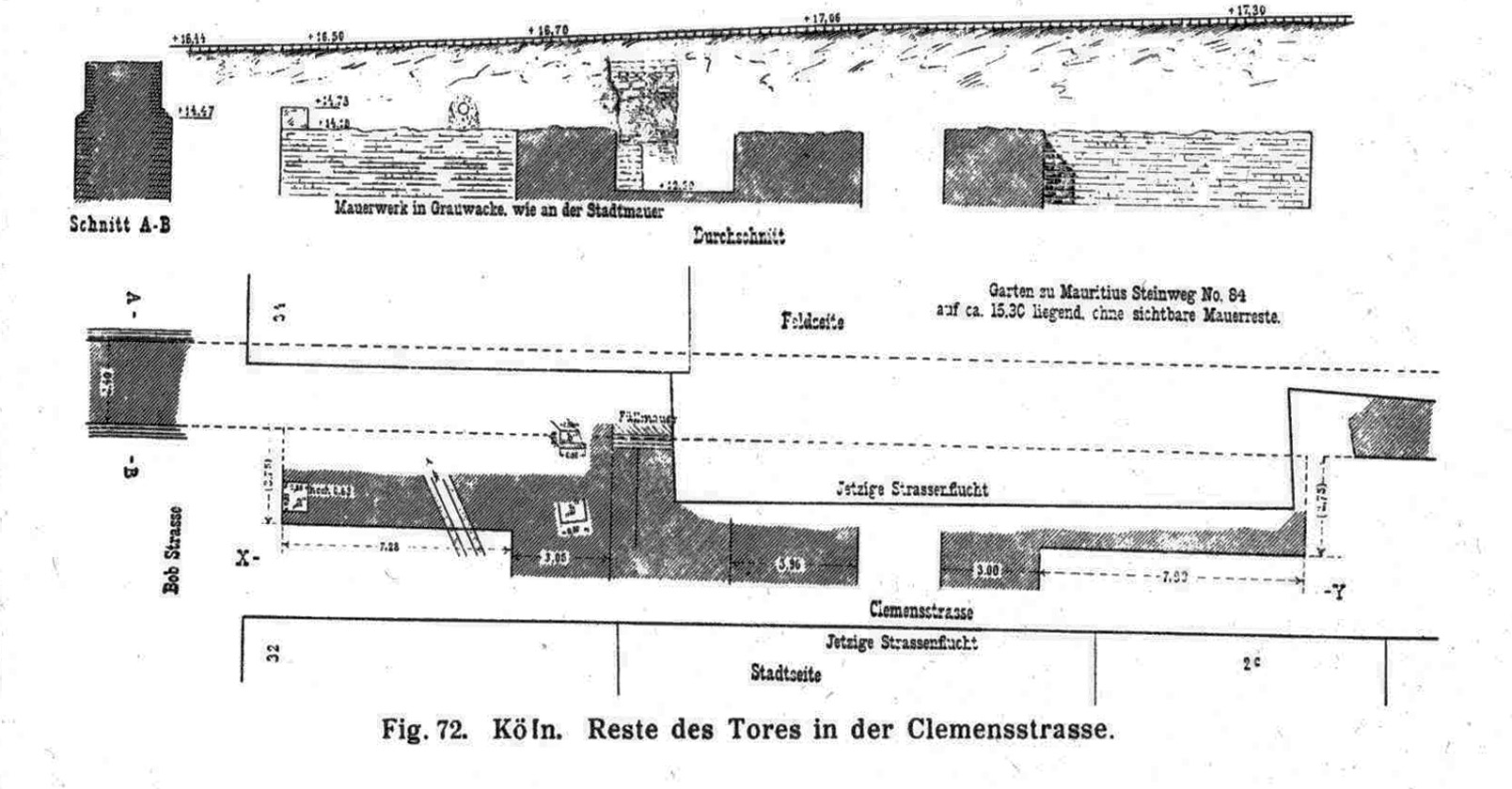 Ancient Roman architecture, Cologne